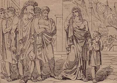 Cratisiclias', mother of Cleomenes III of Sparta, departure for Egypt. Work of Batolomeo Pinelli